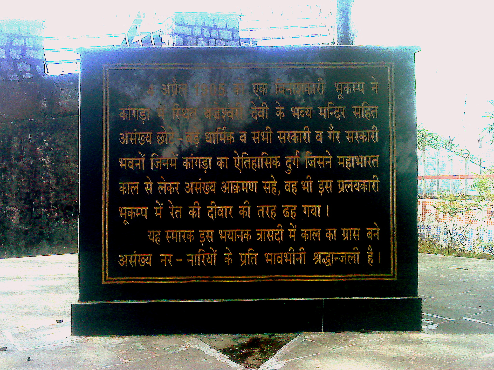 The Memorial written in Hindi is dedicated to the suffering caused by destructive earthquake in 1905